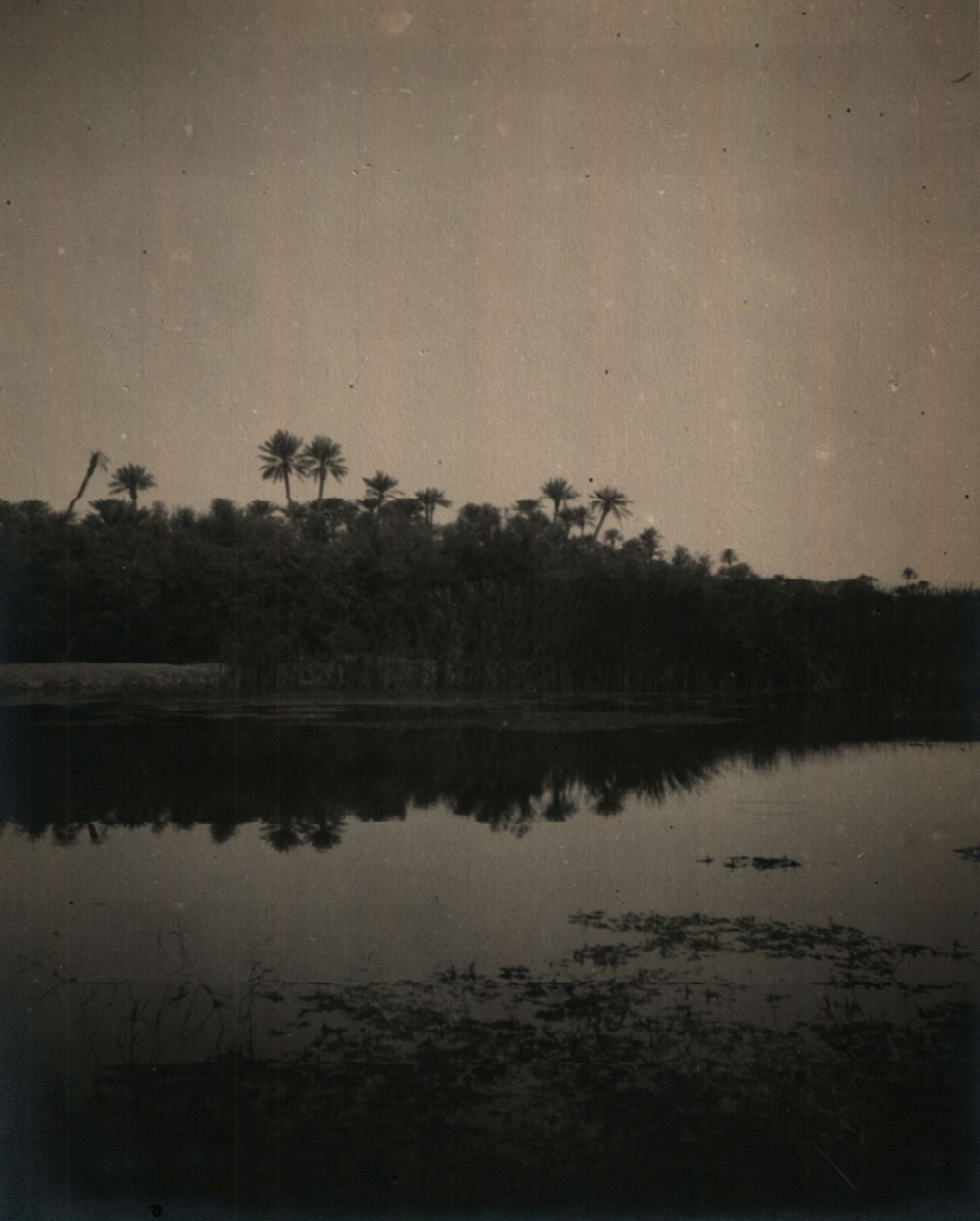 Views and photos of the Sahara desert and other regions in Africa. On the coast of Oued Béchar, Algeria.